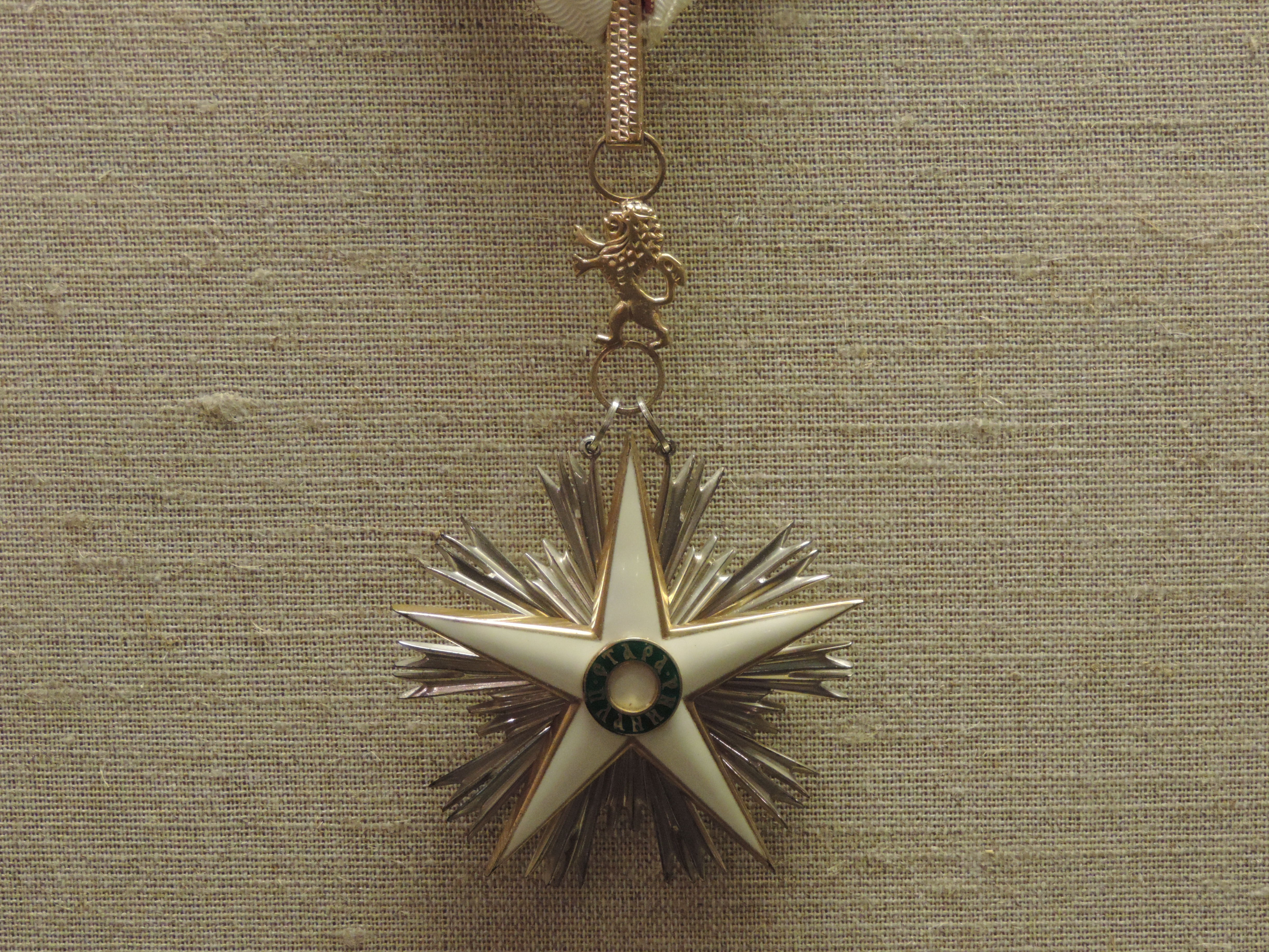 Order Stara planina I class, awarded posthumously to Dimitar Peshev. Exhibit of the National History Museum of Bulgaria